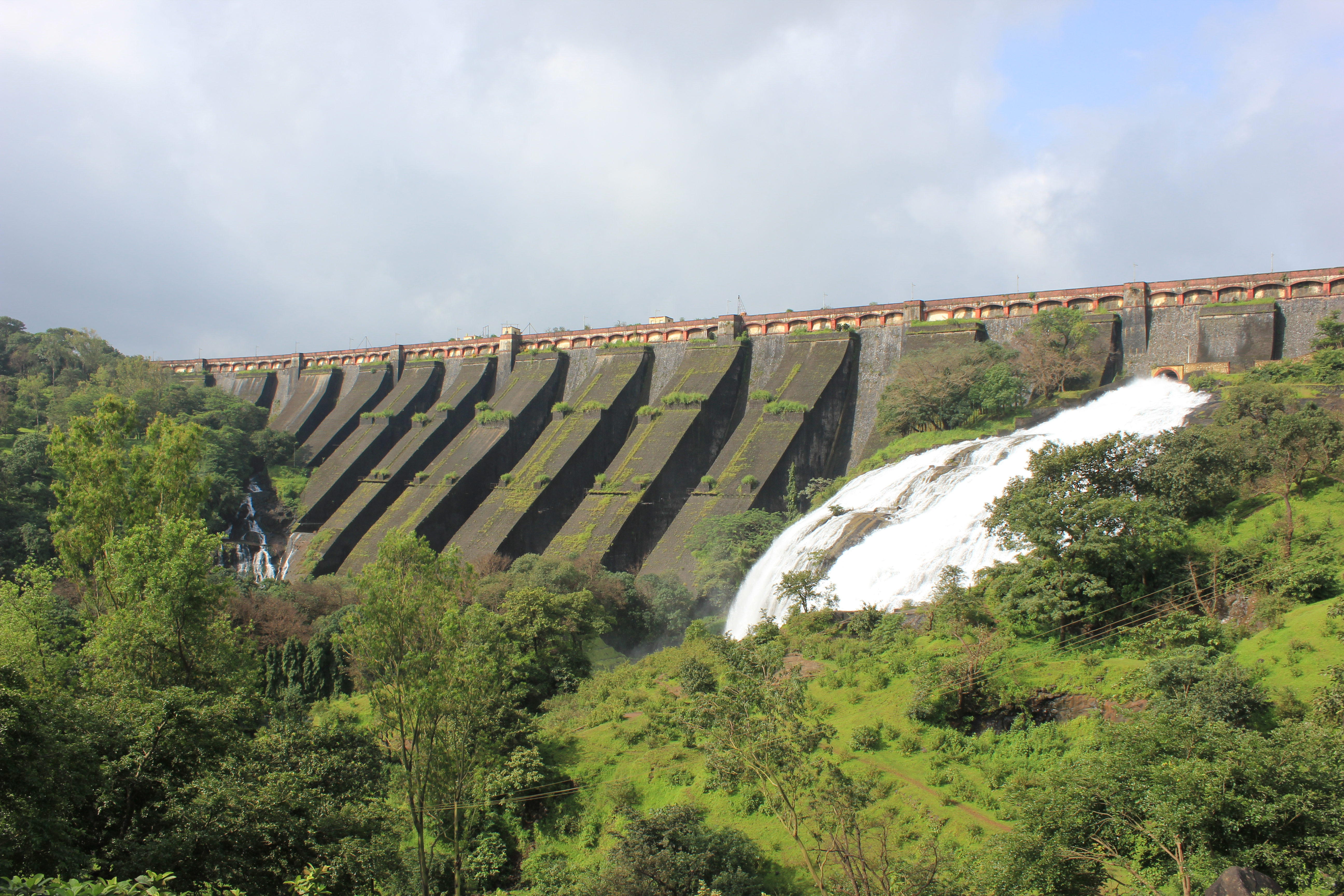 Wilson Dam also known as Bhandardara Dam